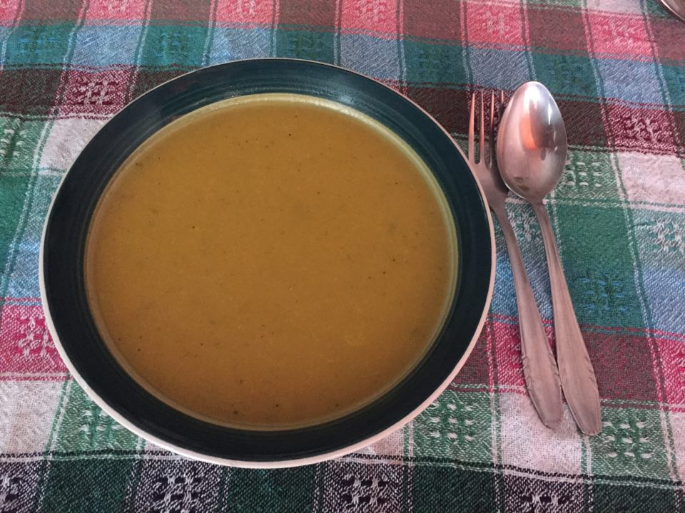 Супа од тиква